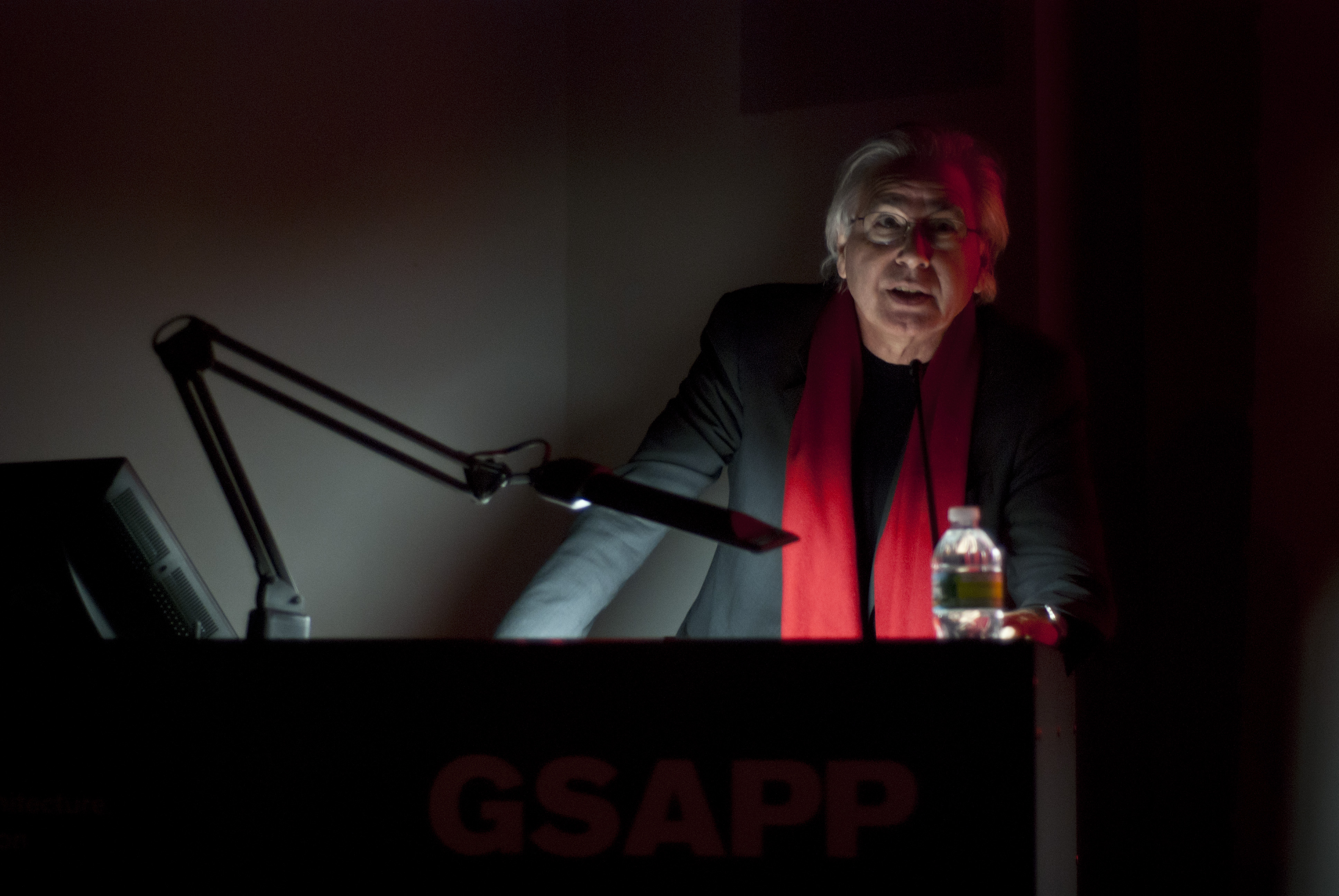 What happened to the architectural manifesto?